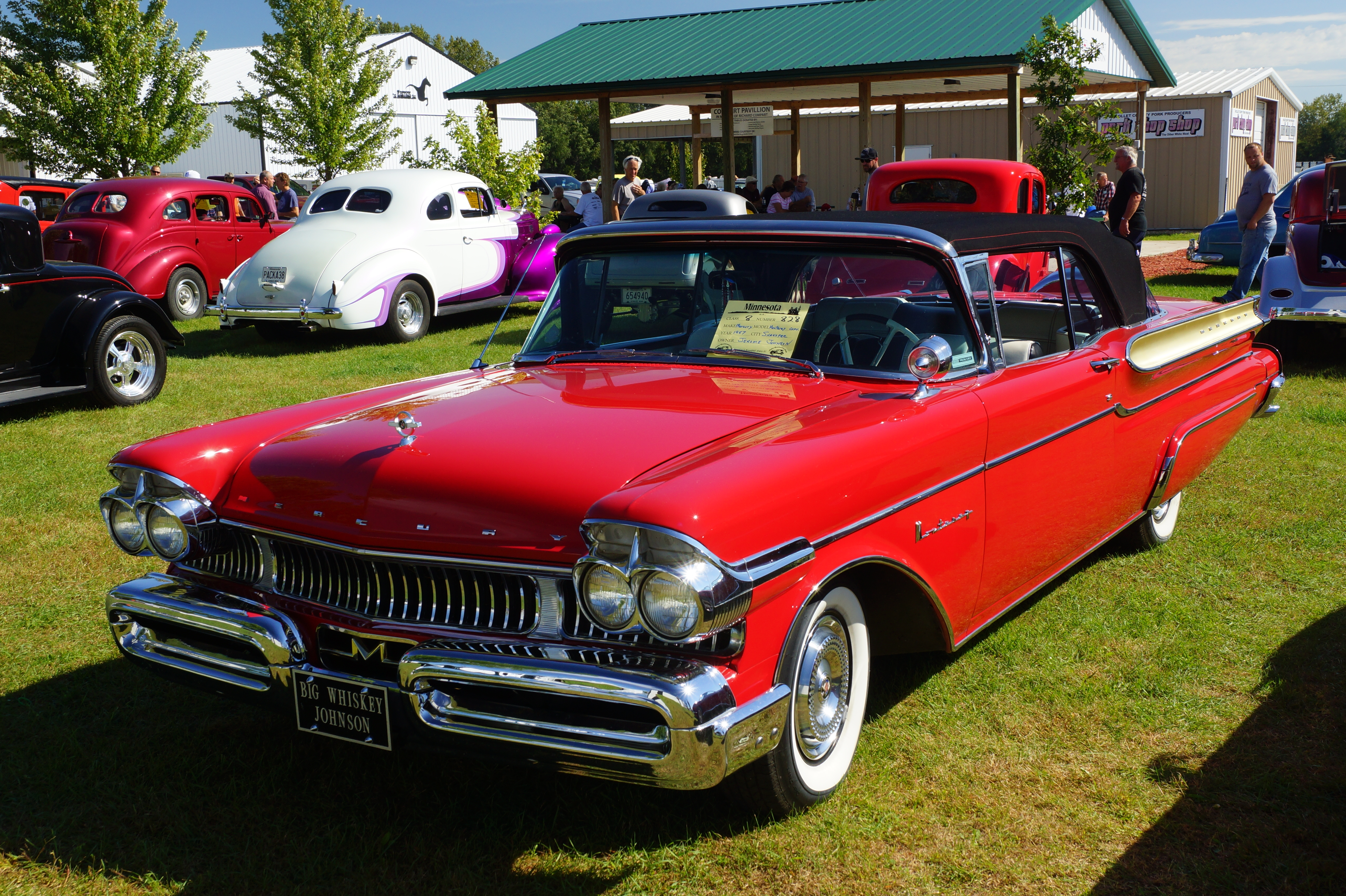 Auto Restorers Club of Southern Minnesota 40th Annual Car Show & Swap Meet Nicollet County Fairgrounds St. Peter, Minnesota September 2016 Click here for more car pictures at my Flickr site.